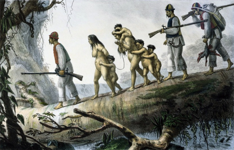 Indian Soldiers from the Coritiba Province Escorting Native Prisoners